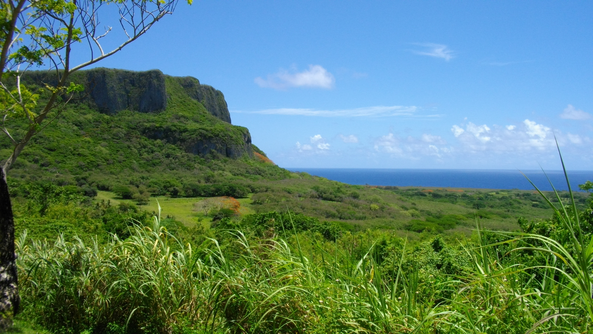 Suicide Cliff in Saipan